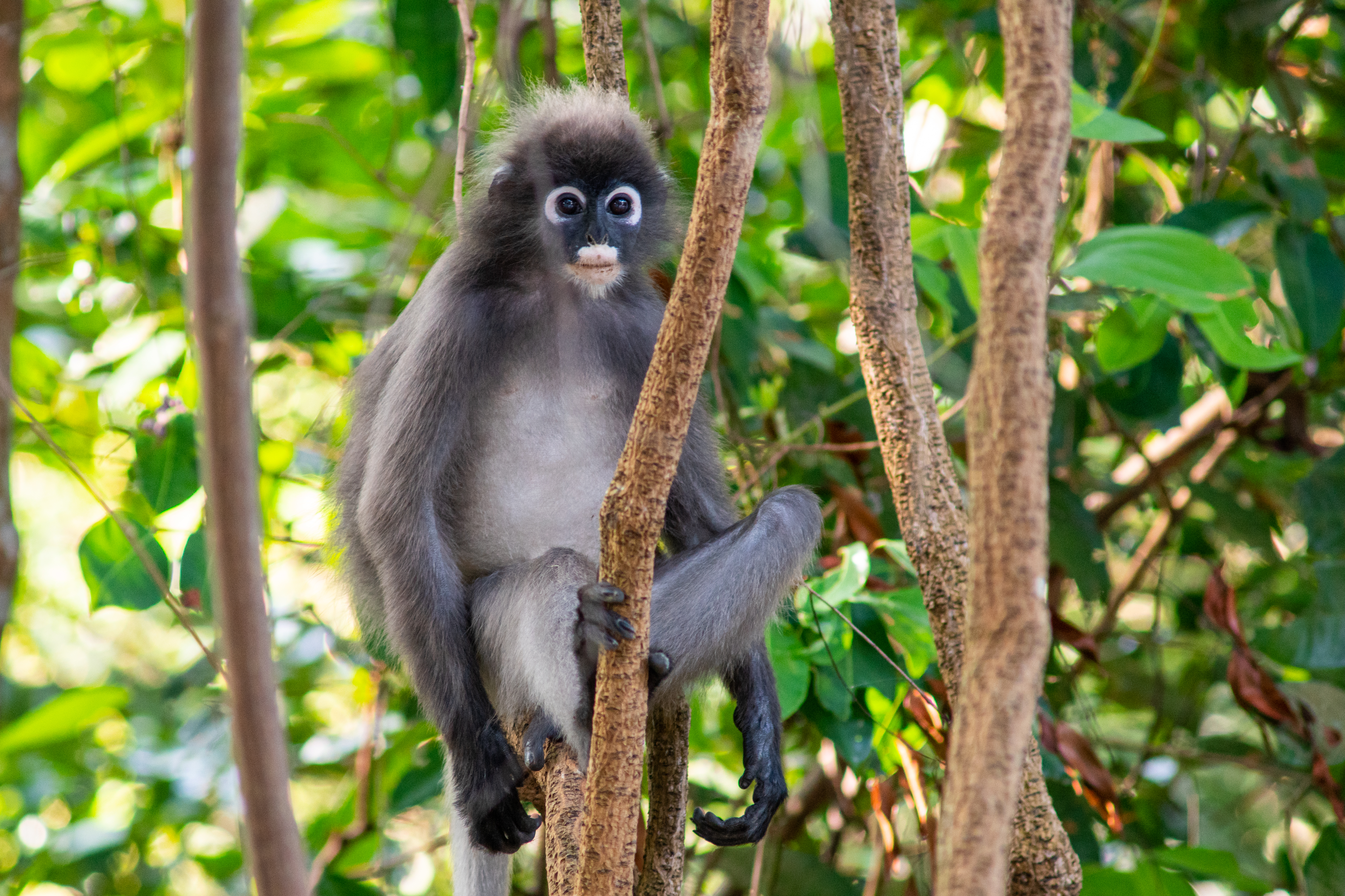 This monkey was part of a large group of dusky leaf monkeys living near the Cape Rachado Lighthouse within a forest reserve at Port Dickson, Negeri Sembilan, Malaysia.